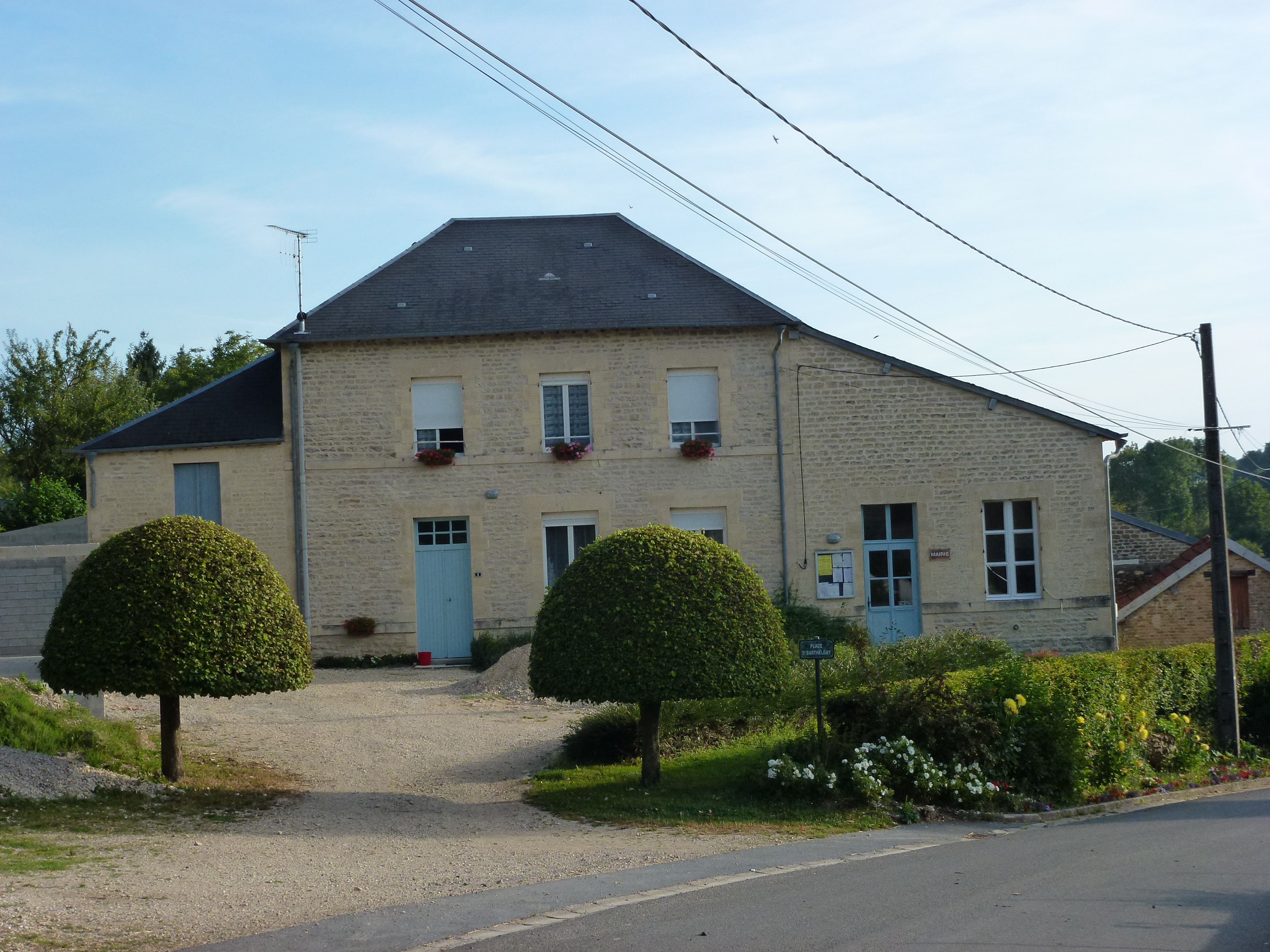 Suzanne (Ardennes) mairie